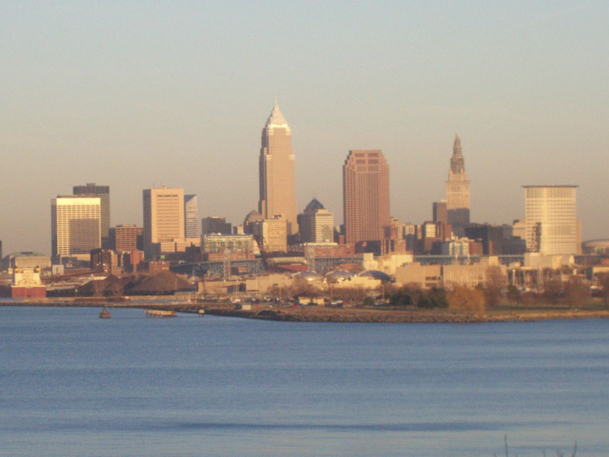 Cleveland Skyline